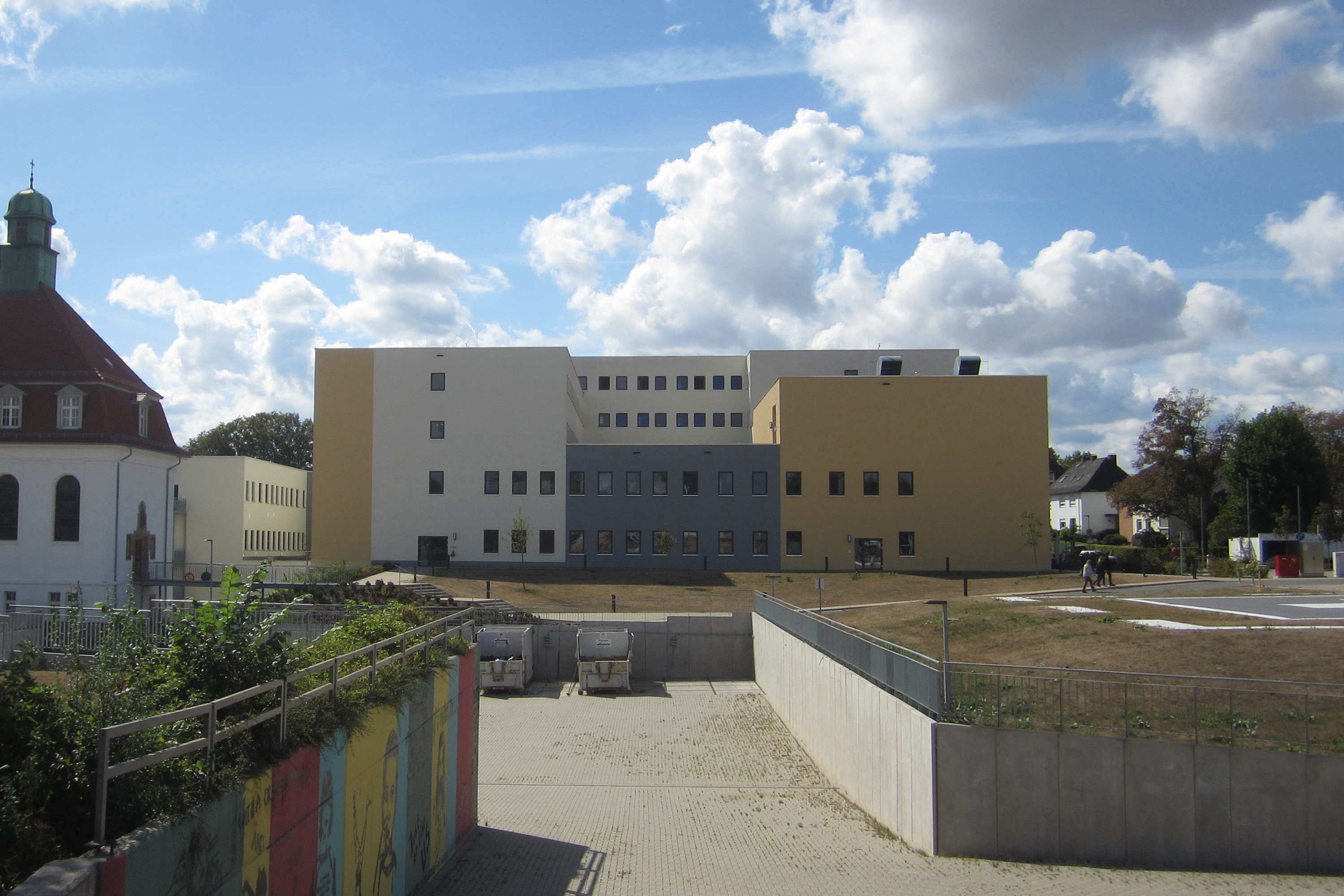 The "Helios hospital Warburg in August 2018.